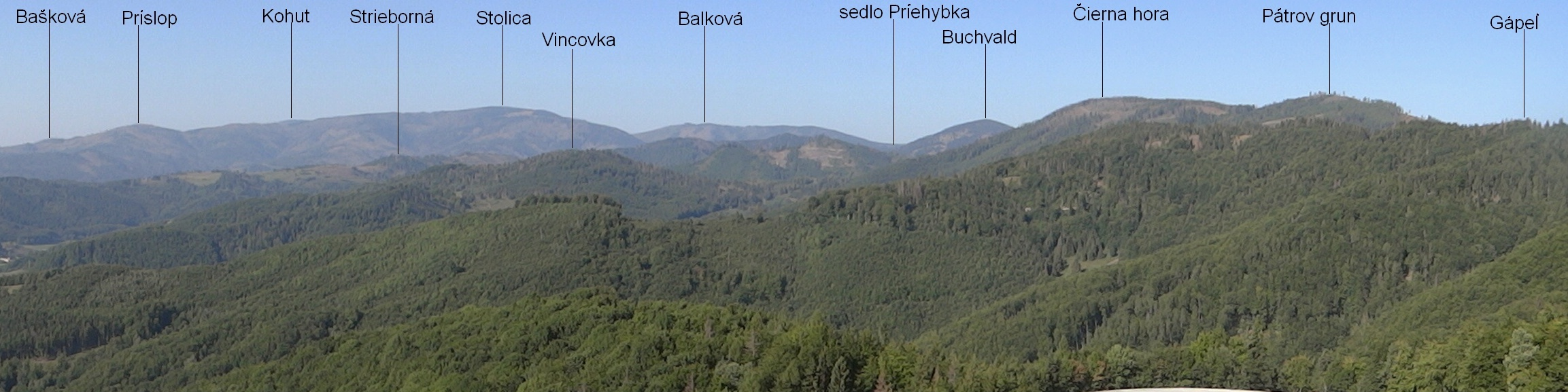 View from Dobšinský kopec